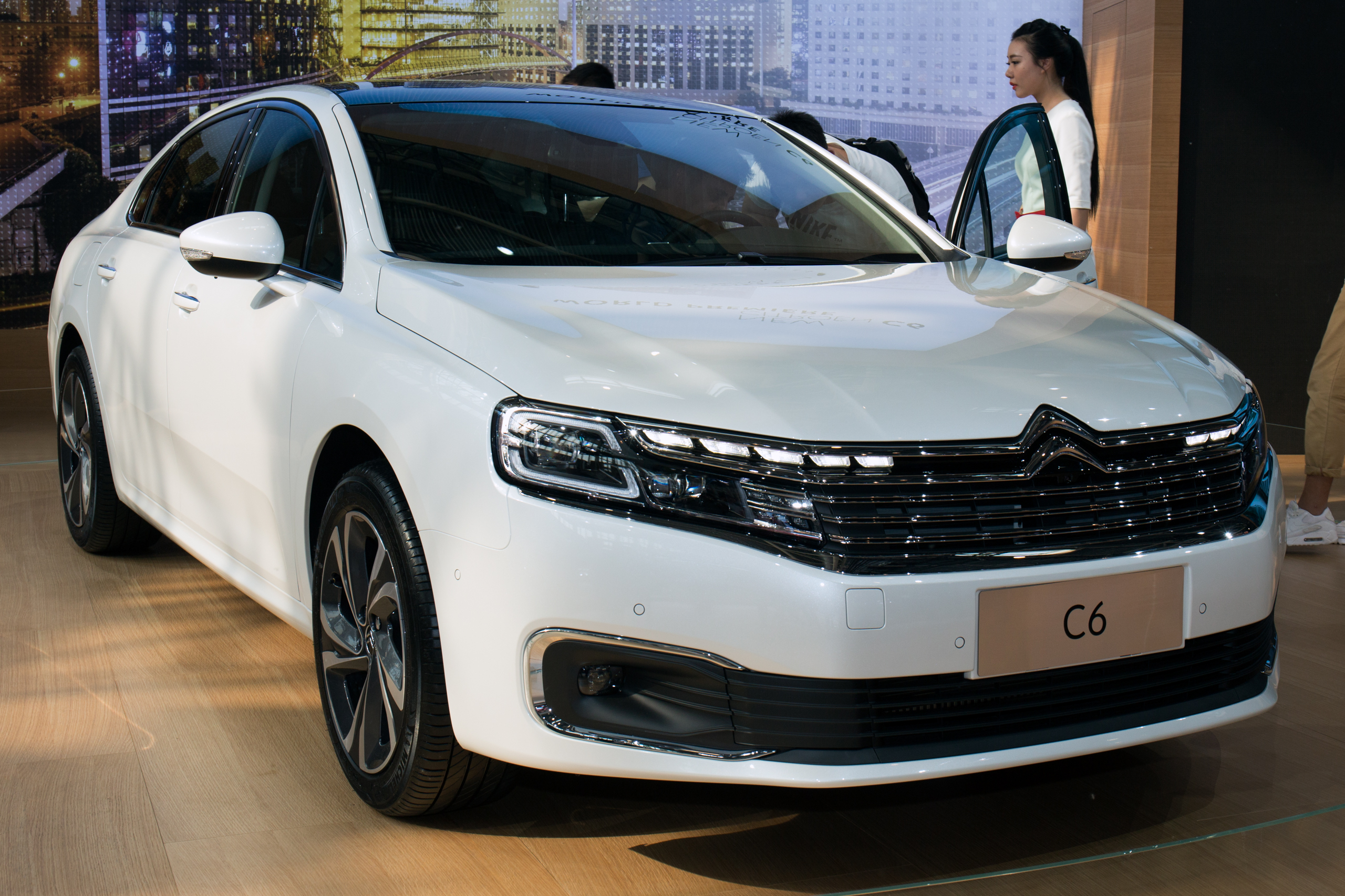 Auto China 2016: 2016 Citroën C6